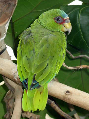 A juvenile White-fronted Parrot at Central Park Zoo, New York, USA. It has a pale grey iris and the red ring of feathers around the eyes is incomplete.